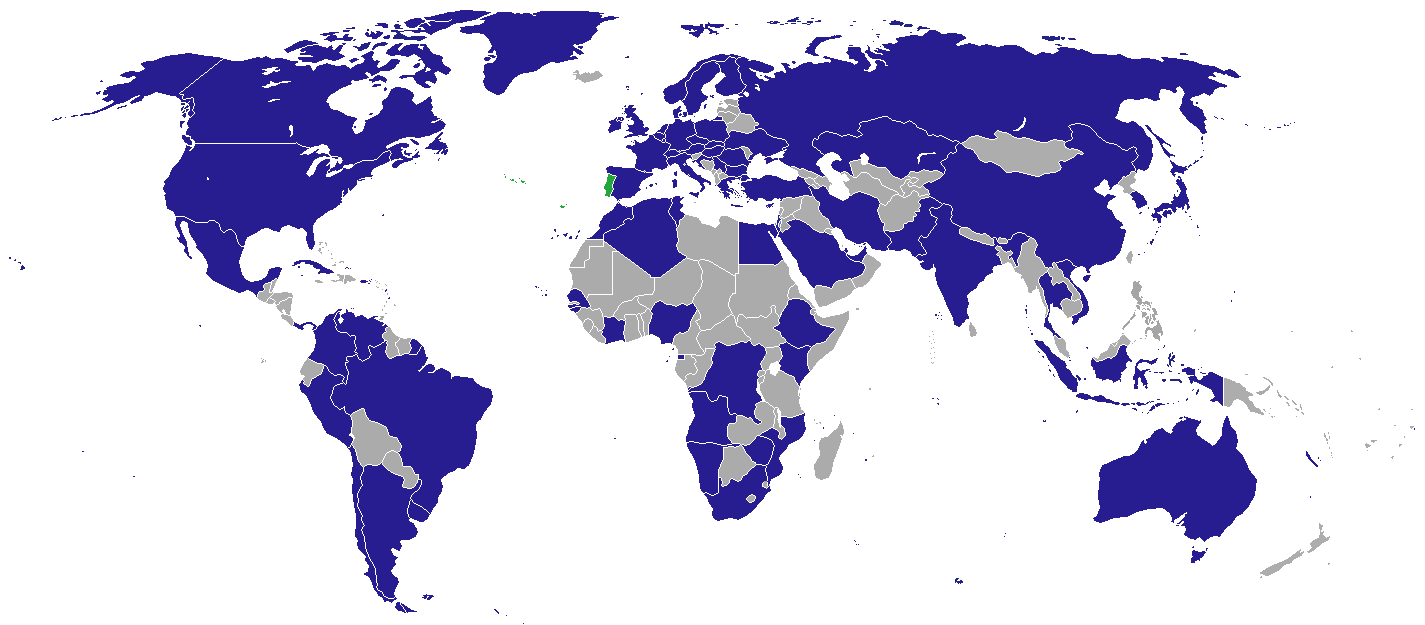 Map of country's host to a Portuguese Diplomatic mission (Portugal is shown in dark green)